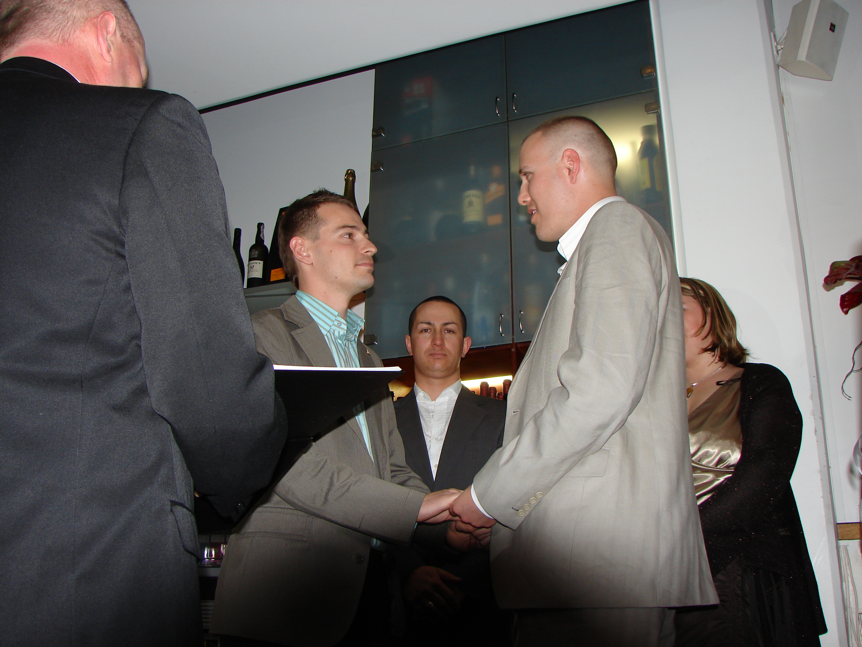 Helen Robinson, Civil union of Dion Blackler (left) and Regan Andrew (right), Wellington, New Zealand, December 2006.